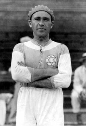 Béla Guttmann with the Hakoah Wien jersey